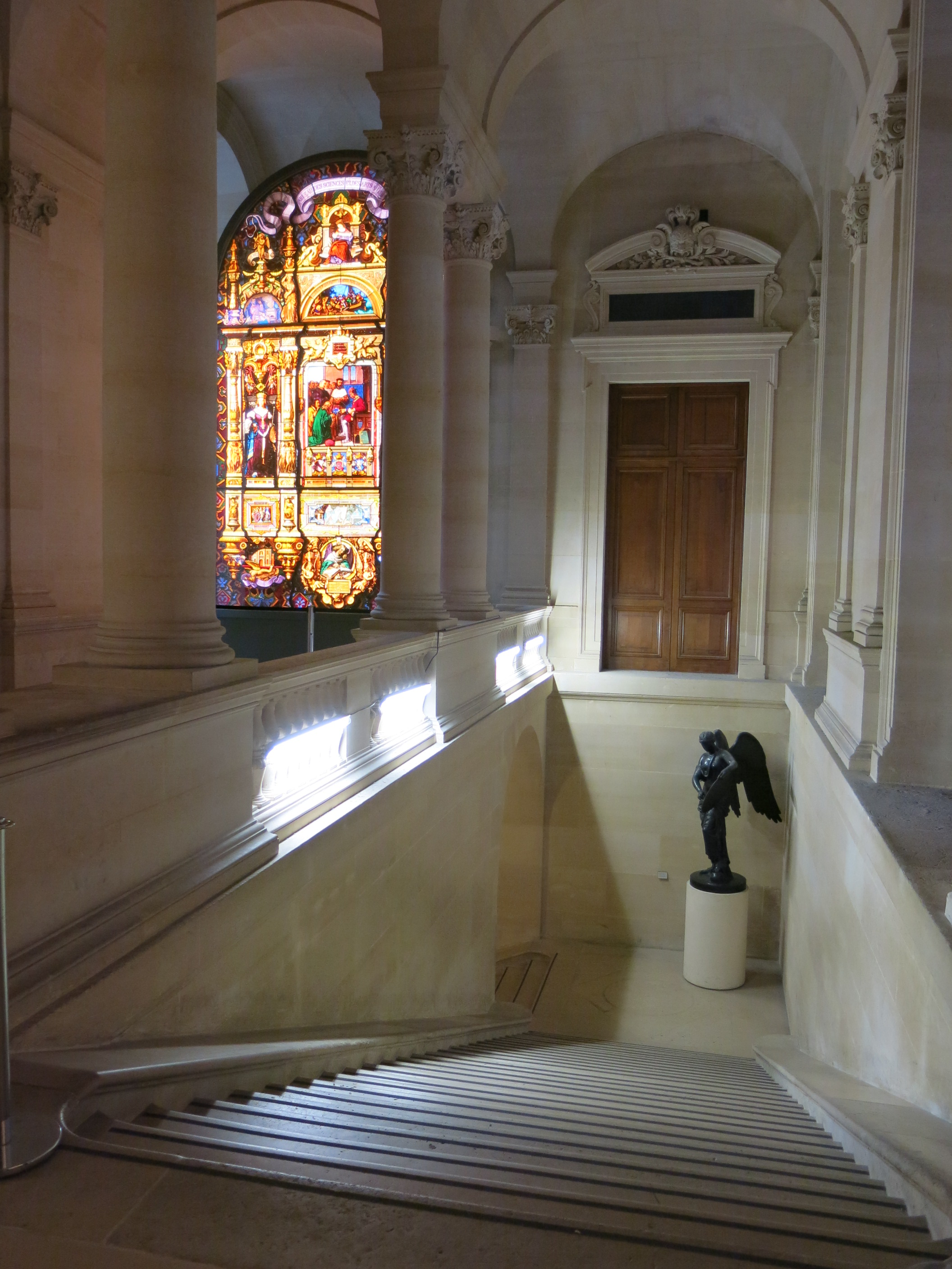 Colbert stairs and Victory of Brescia. Louvre museum, Paris, France.